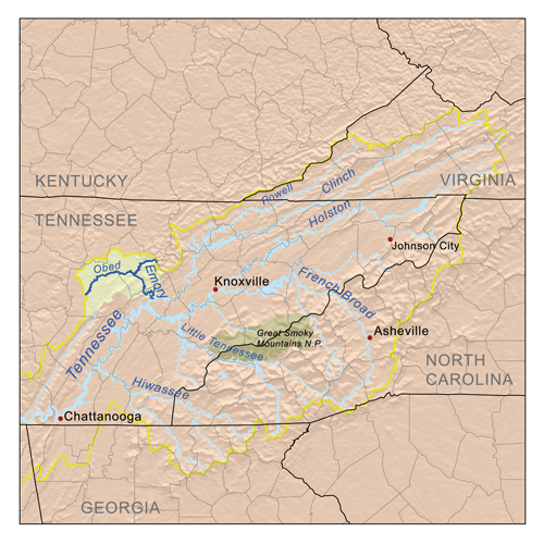 Map of the Emory and Obedrivers watershed.